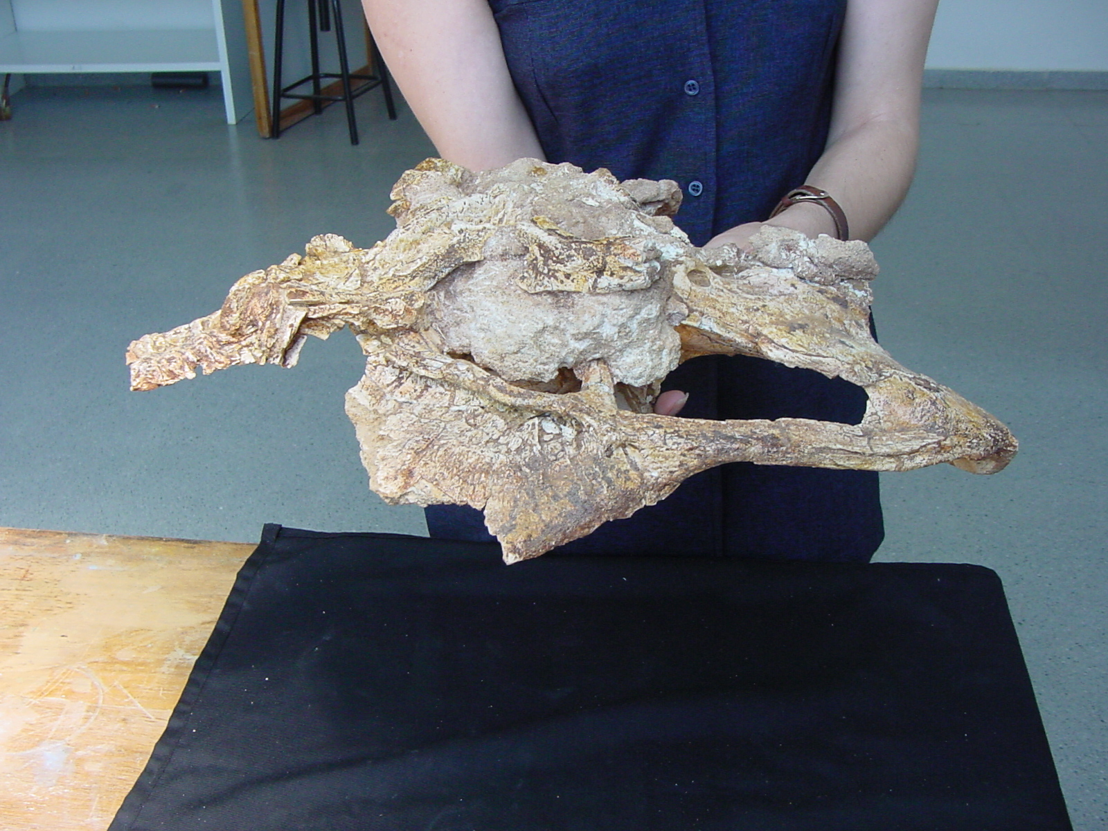 Cocodrilo01